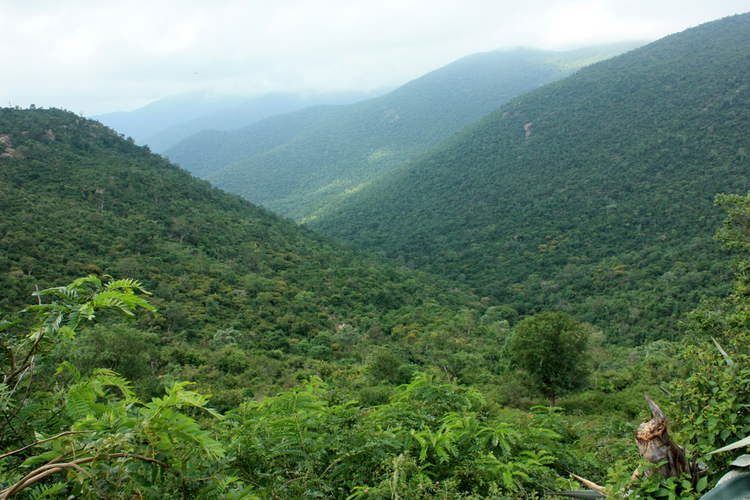 The Male Mahadeshwara betta (MM Hills) village is surrounded by dense forests. These forests form a critical connection between the tiger forests of Mudumalai, Bandipur and BRT tiger reserve in the west and the Cauvery Wildlife Sanctuaries of Karnataka and Tamil Nadu in the north.